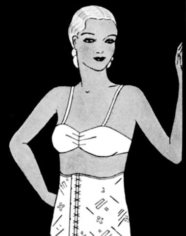 Crop of File:FashionsAndFiguresDressCorset.jpg